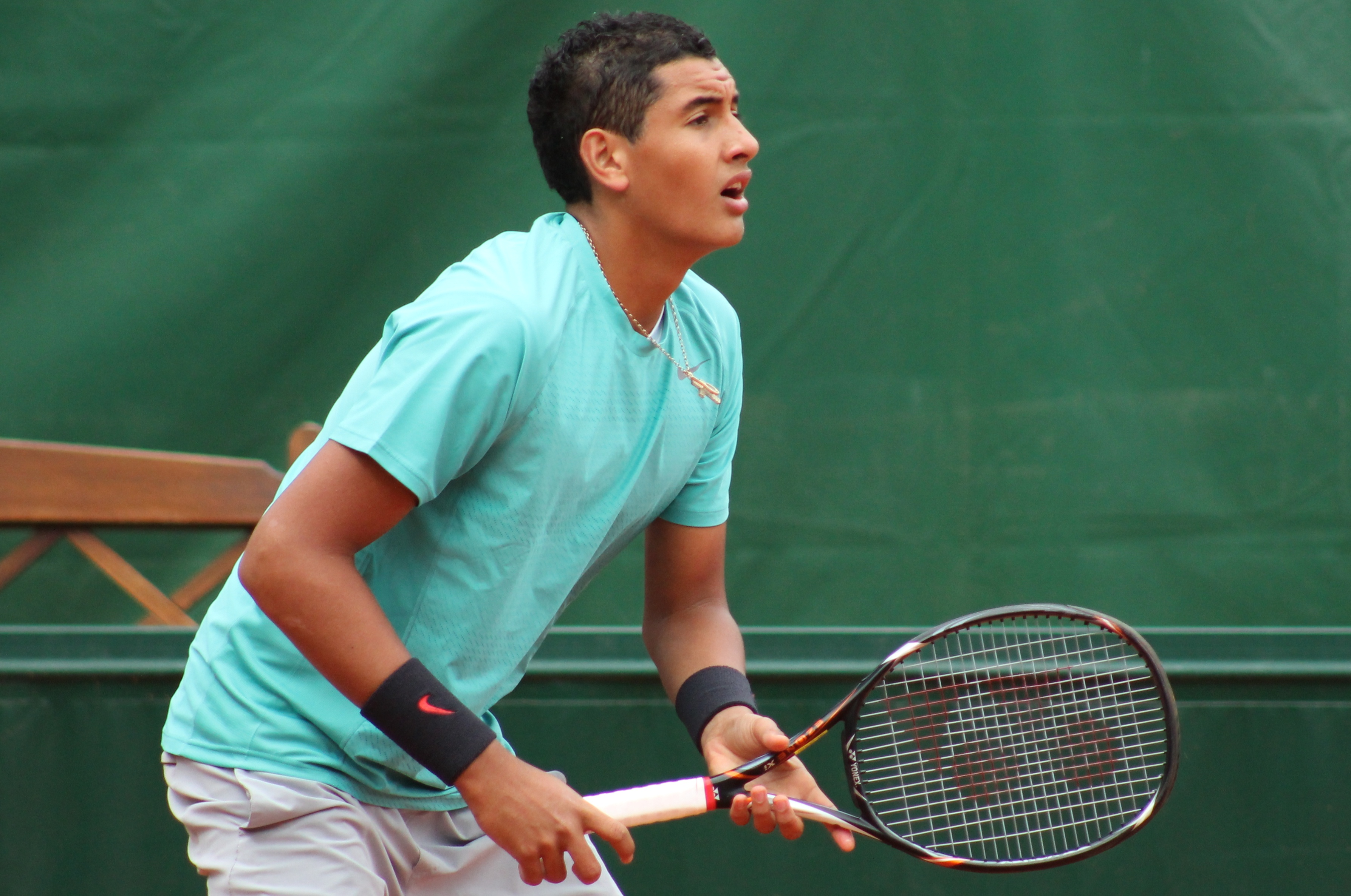 Nick Kyrgios playing at Roland Garros 2013